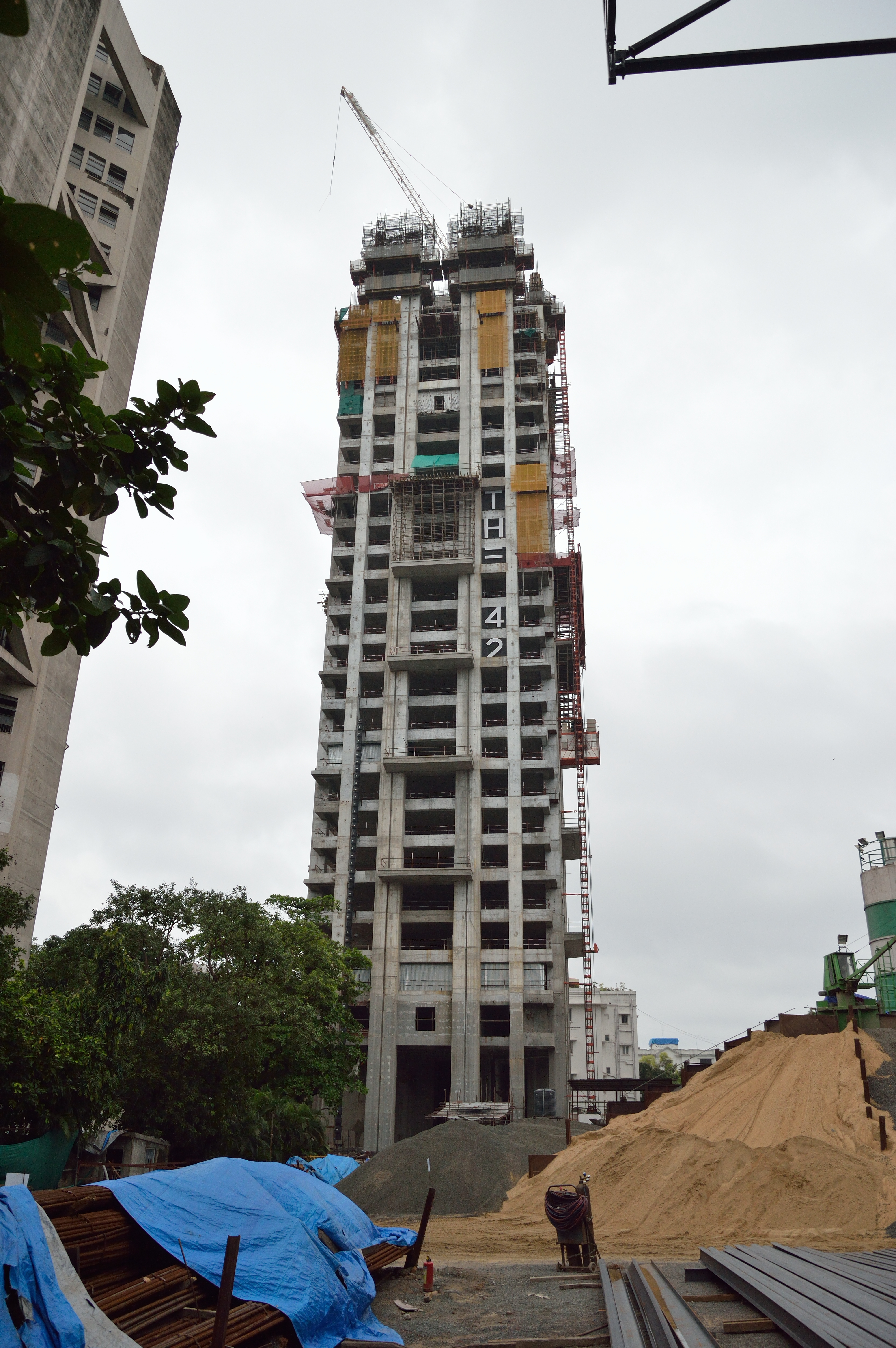 Once this premises belonged to the Maharaja of Darbhanga. Now, a (tallest in Kolkata) super-luxury residential project 'The 42', 240 metre tall building is under construction on the Chowringhee or Jawaharlal Nehru road, Kolkata.